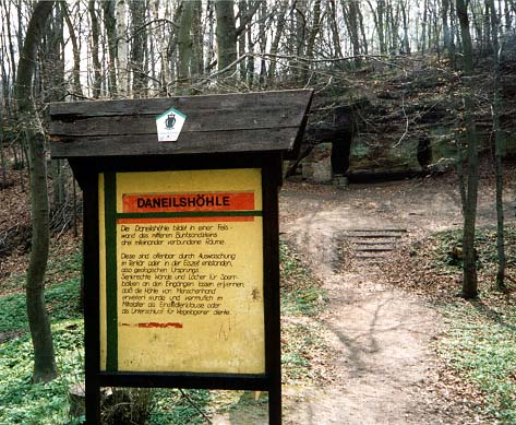 Wanderweg in Huy Hebirge/Public path in Huy Mountauns (Germany)/Le sentier publique dans Huy (Allemagne)